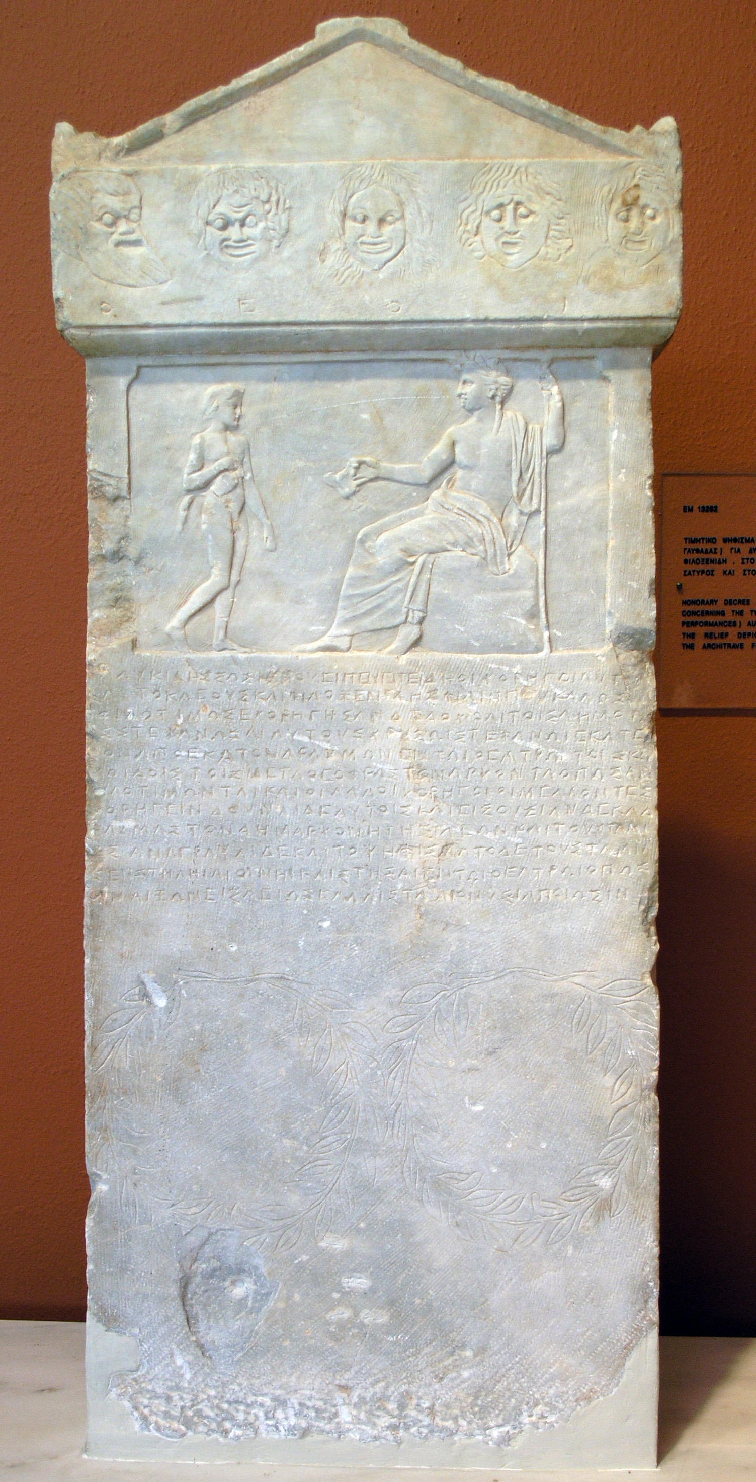 Honorific decree with the inscription: “The deme Aixone honours the choregoi Auteas and Philoxenides”. White, medium-grained marble, 313–312 BC. Found in Glyphada in 1941.